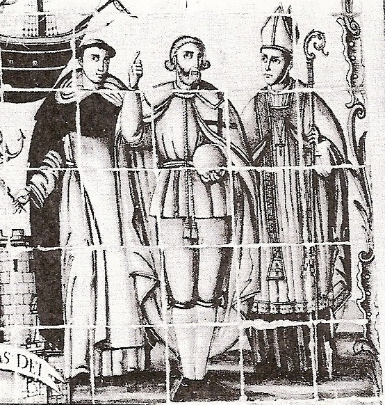 The navigator Diego Ramírez de Arellano (center) from a rococo eighteenth century ceramic altarpiece commemorating the sons of Xàtiva, on the wall of the Casa de Artigues, Xàtiva, Valencia, Spain